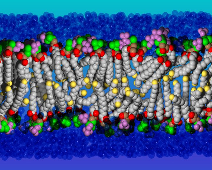 A diagonal molecular slab from the DPPC lipid bilayer simulation[1]; color scheme: PO4 - green, N(CH3)3 - violet, water - blue, terminal CH3 - yellow, O - red, glycol C - brown, chain C - grey. Image taken from a research page of Dr. Richard W. Pastor. ↑ Feller S.E., Venable R.M., and Pastor R.W. Langmuir 13 (24) 6555-6561, 1997